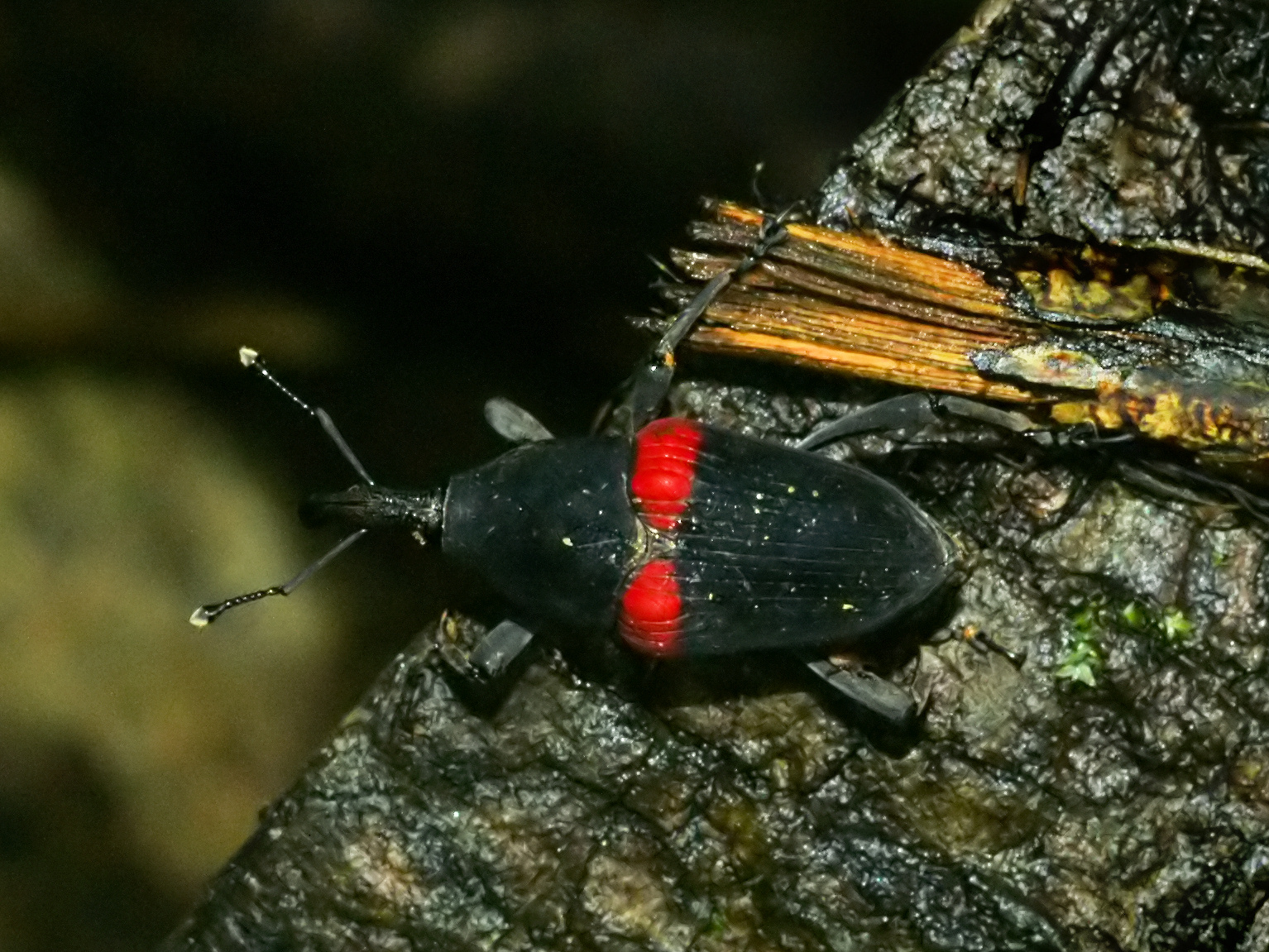 Dryophthorid beetle[1] at Puentes colgantes close to Arenal, Costa Rica.